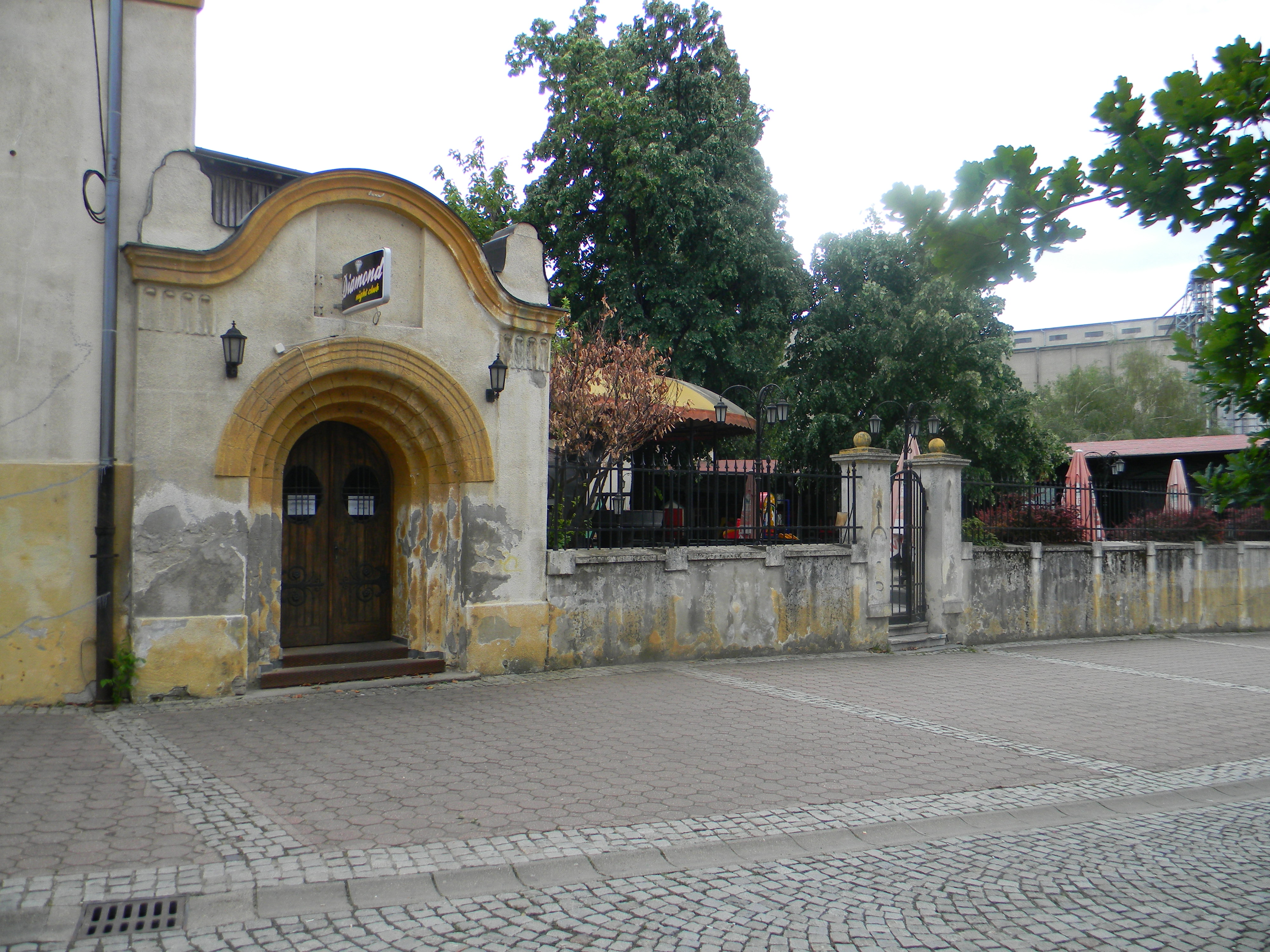 Ruins of Weiferts brewery (restaurant on this picture), founded 1722, sold 2008 (new plant) and the old plant destroyed by fire in 2010.